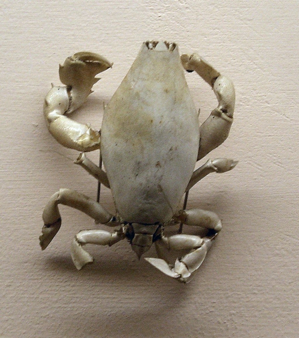 Lyreidus tridentatus, a raninid crab. Location: Horniman Museum, London.